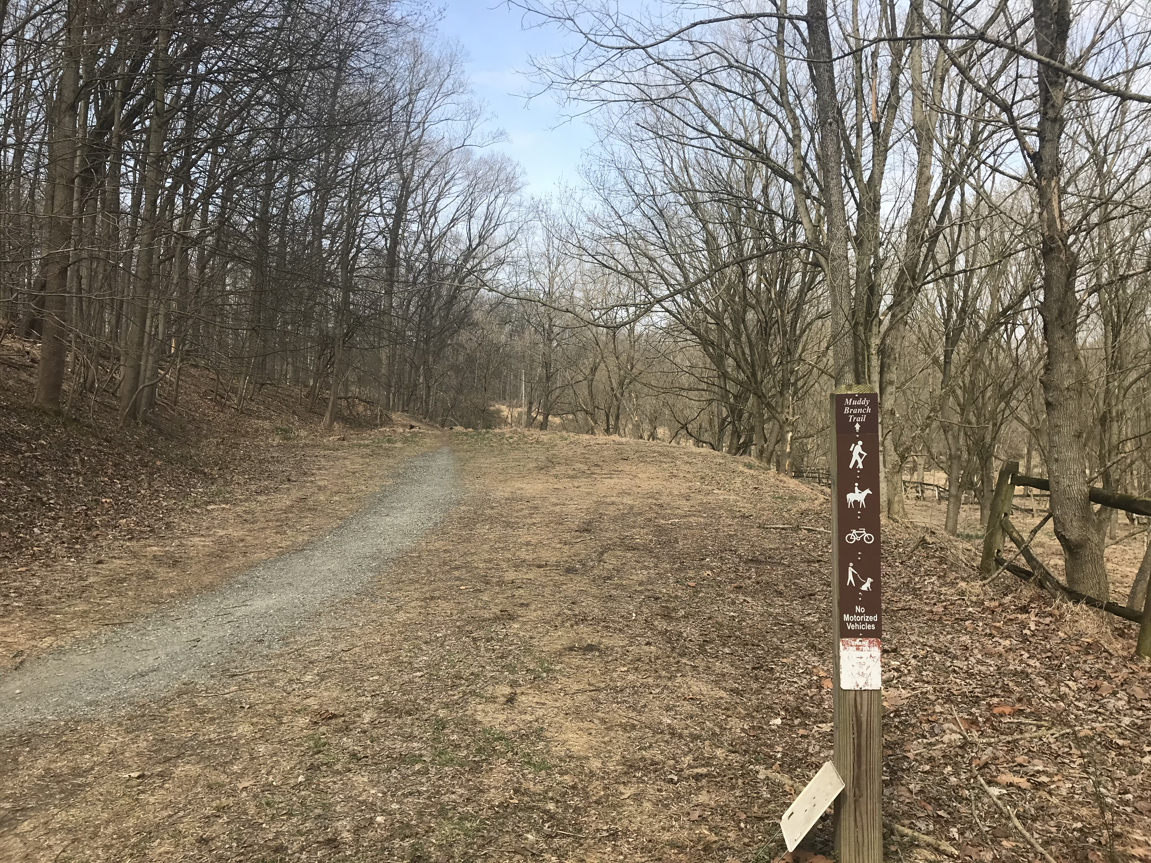 View of Muddy Branch Trail where it crosses Quince Orchard Road in North Potomac, Maryland, USA.